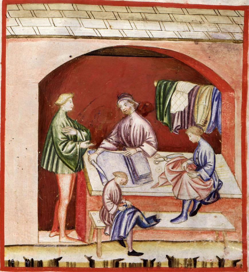 Aspects of daily life: Silk clothing